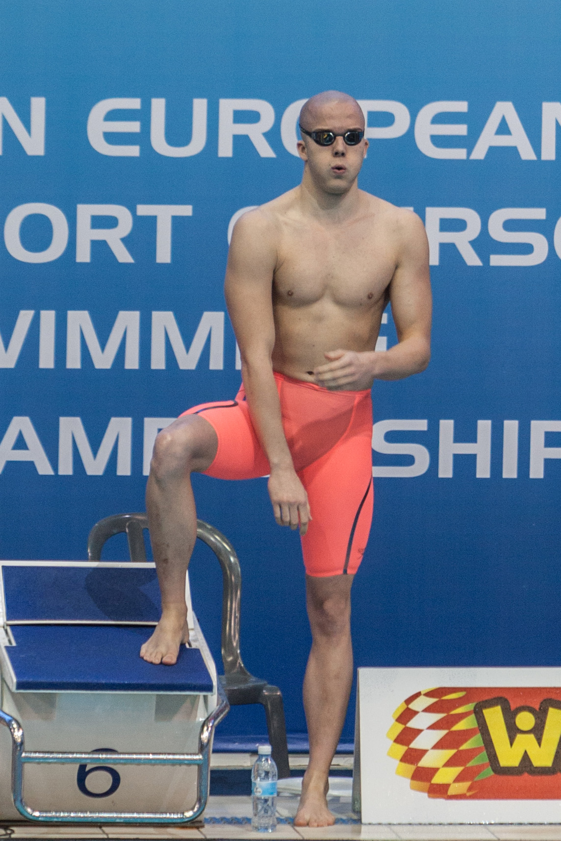 Swimmer Jasper Aerents at the 2015 European Short Course Swimming Championships, Netany